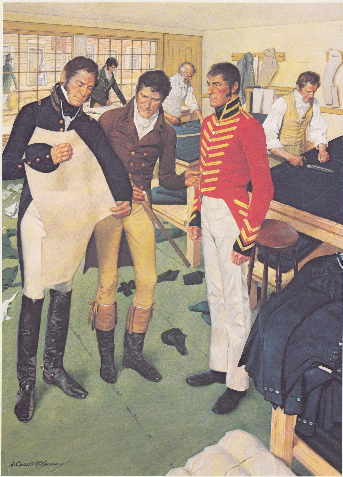 Under my own Eye. Clothing Establishment, Philadelphia, 1815. The outbreak of the War of 1812 and the appointment of Callender Irvine as Commissary General of Purchases led to the introduction of procurement procedures which lasted for many years. In the Philadelphia building specifically rented for the purpose, three cutters work in the background. Callender Irvine discusses the pattern for the front and sides of the Engineer enlisted men's coat with Francis Brown the head of the cutting establishment. Irvine is wearing the blue general staff, single breasted coat with the embroidered buttonholes allowed general officers on thecollar only, and gilt bullet buttons. The man on the right models a coat of the Corps of Engineers enlisted musicians.